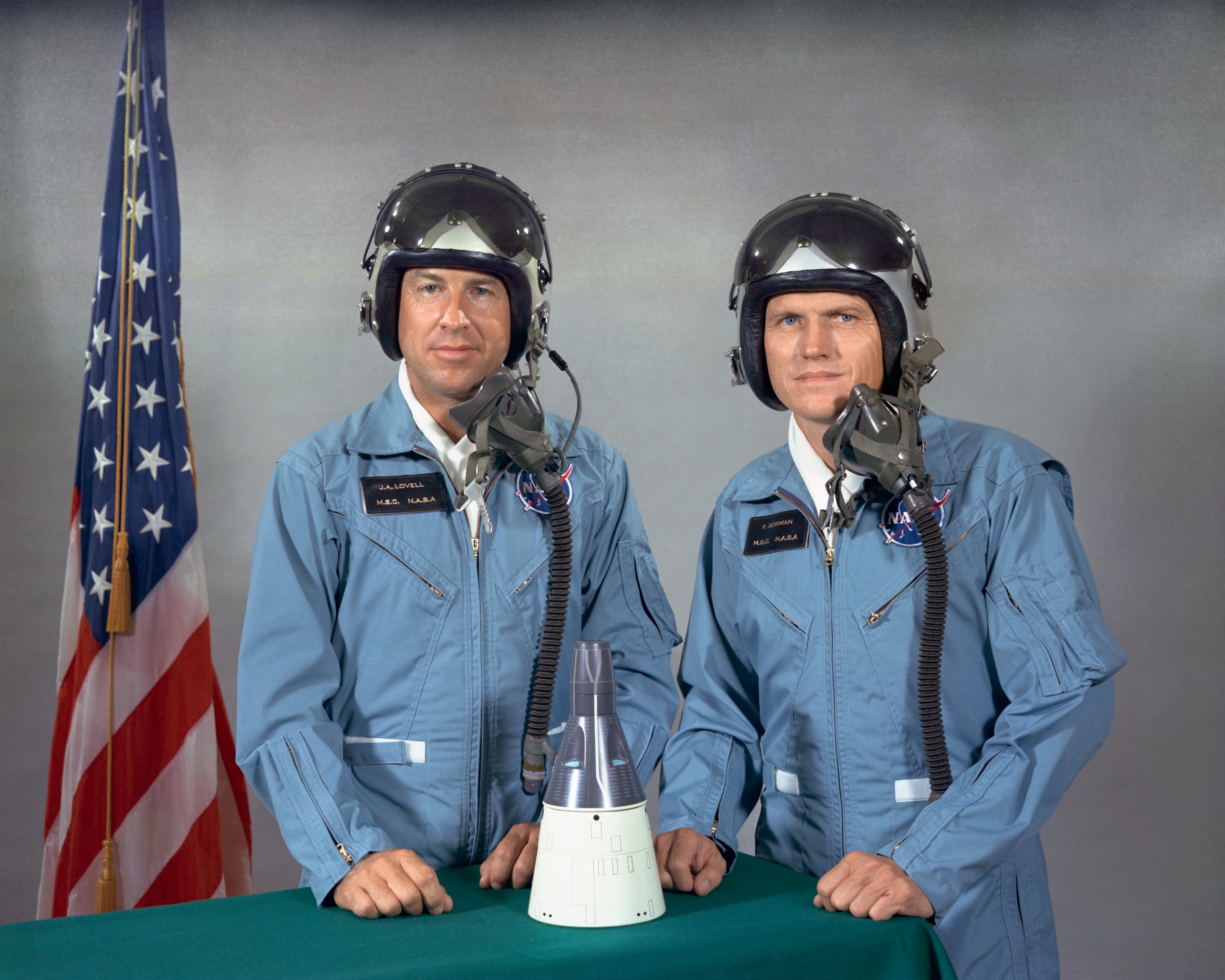 Portrait of Astronauts Frank Borman, right, command pilot, and James A. Lovell Jr., pilot, the Gemini 7 prime crew. Both men are in flight suits with helmets and oxygen masks. There is a model of the Gemini spacecraft on the table in front of them. NASA Identifier: S65-41825 Unit: NASA DVIDS Tags: nasa; johnsonspacecentermediaarchive